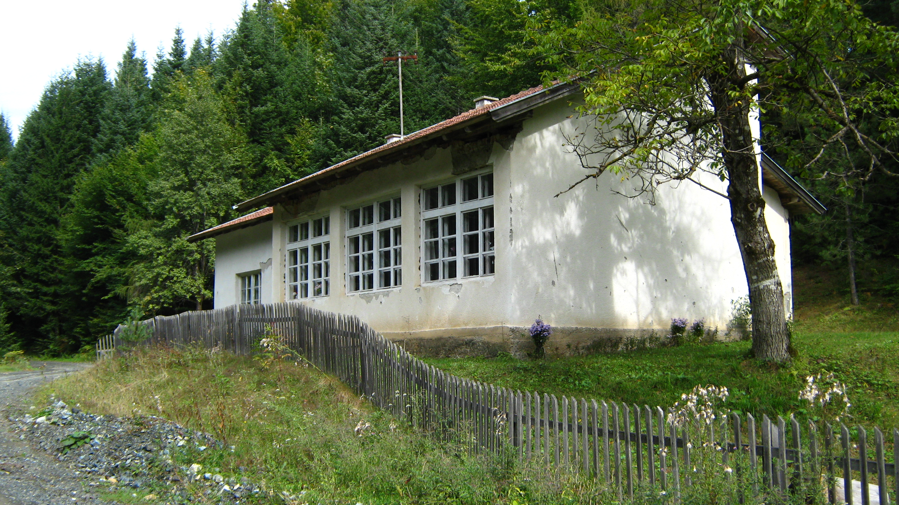 School in Kuzmani, Teslić, Republic of Srpska, BA